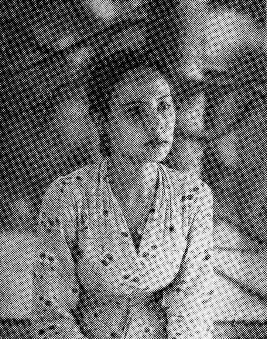 Dasima, the main character of Dasima (1940), in a contemplative pose.